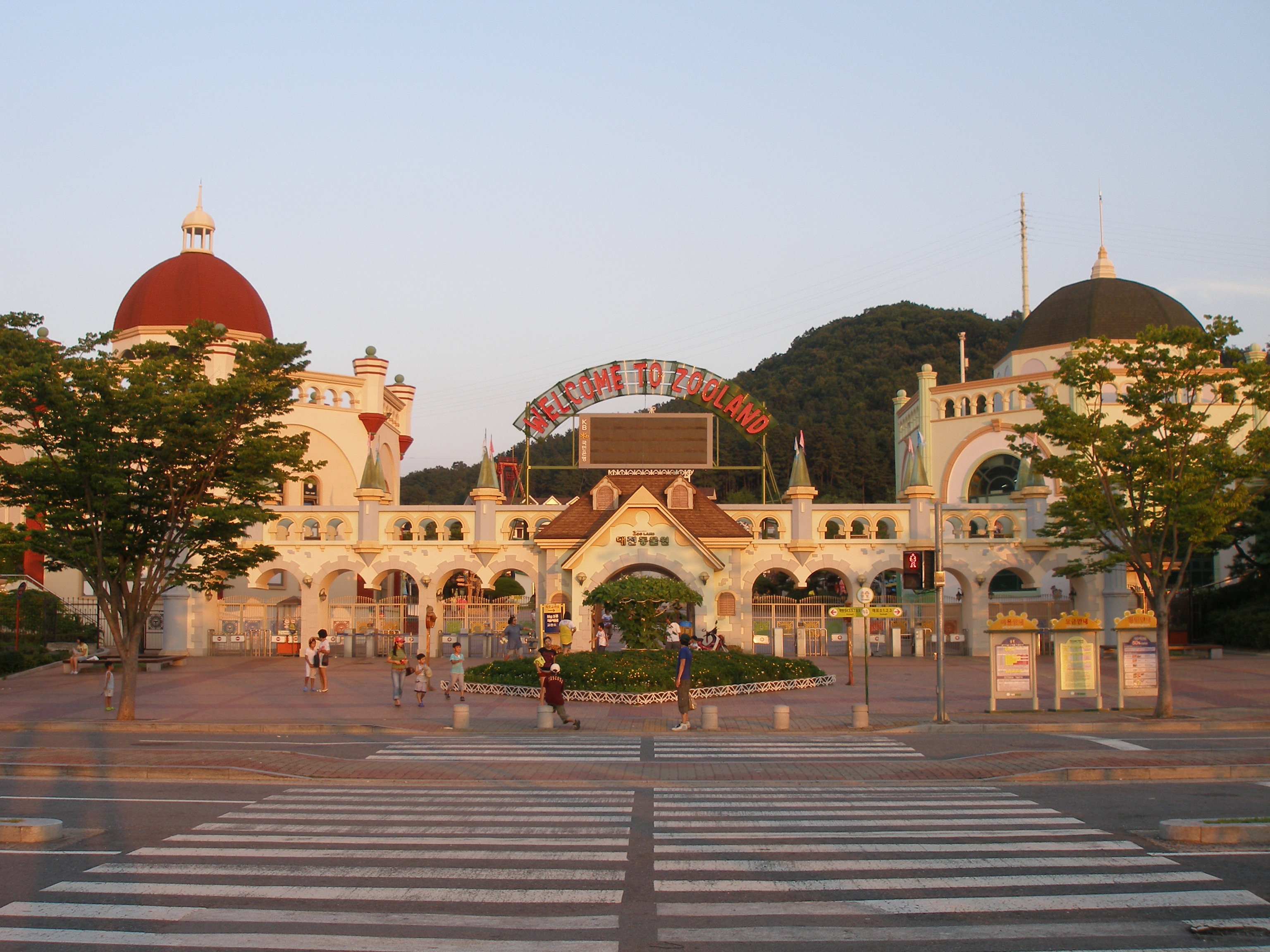 Daejeon Zooland